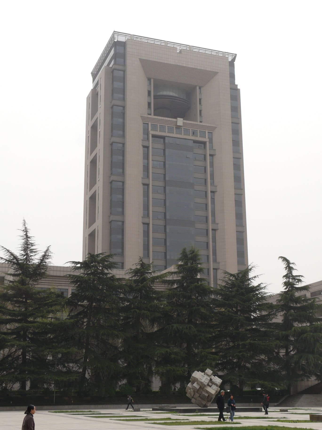 Building in Xi'an Jiaotong University (Shaanxi, China)